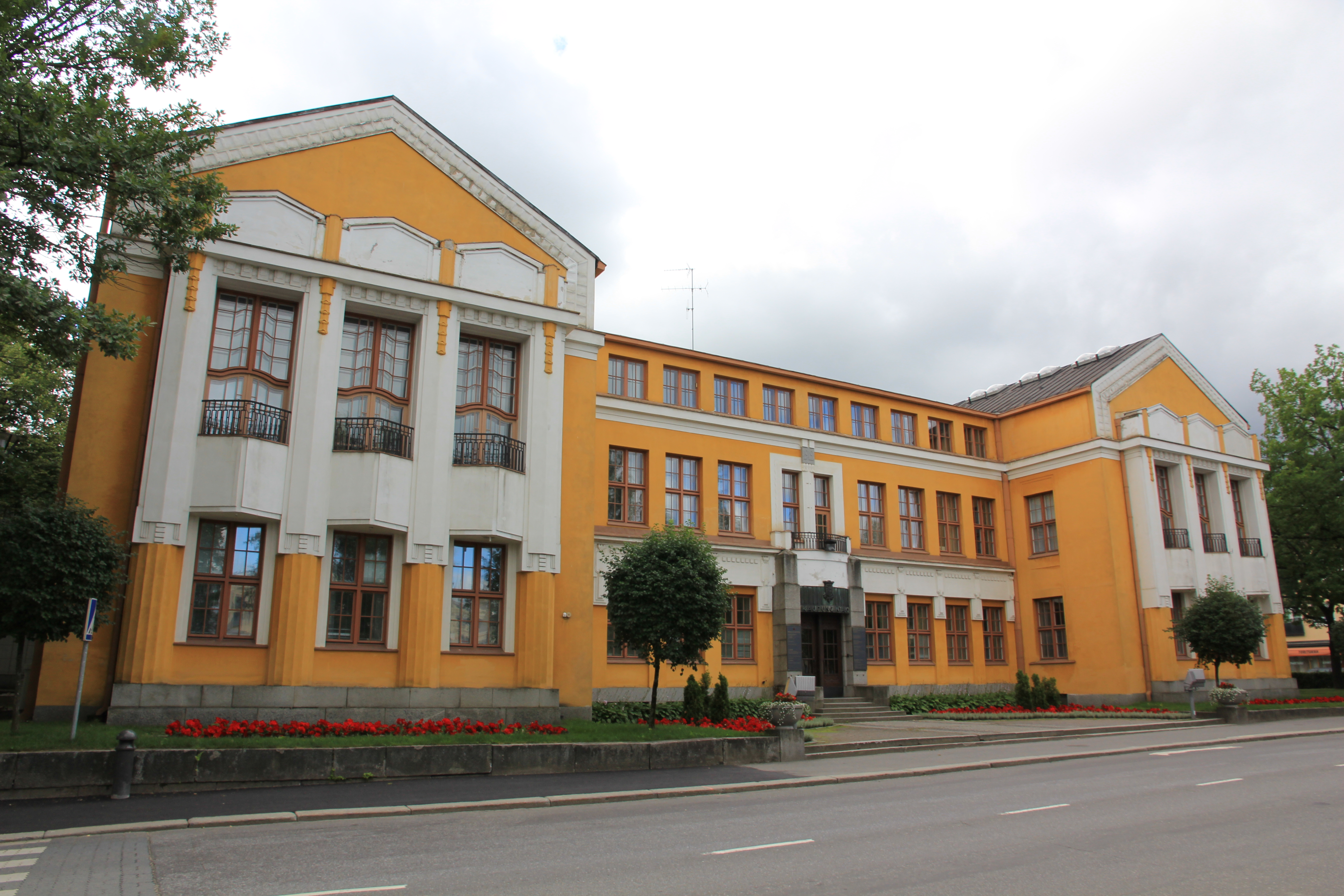 Mikkeli town hall.